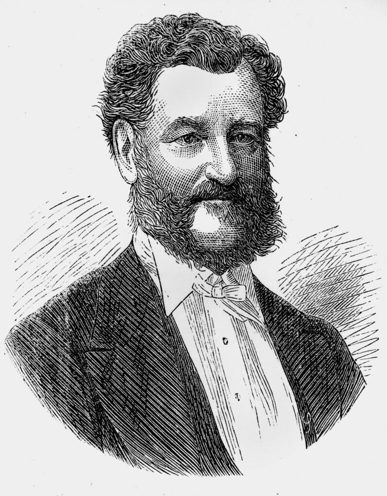 Arthur MacAlister, Premier of Queensland (Australia) from 8 January 1874 to 5 June 1876